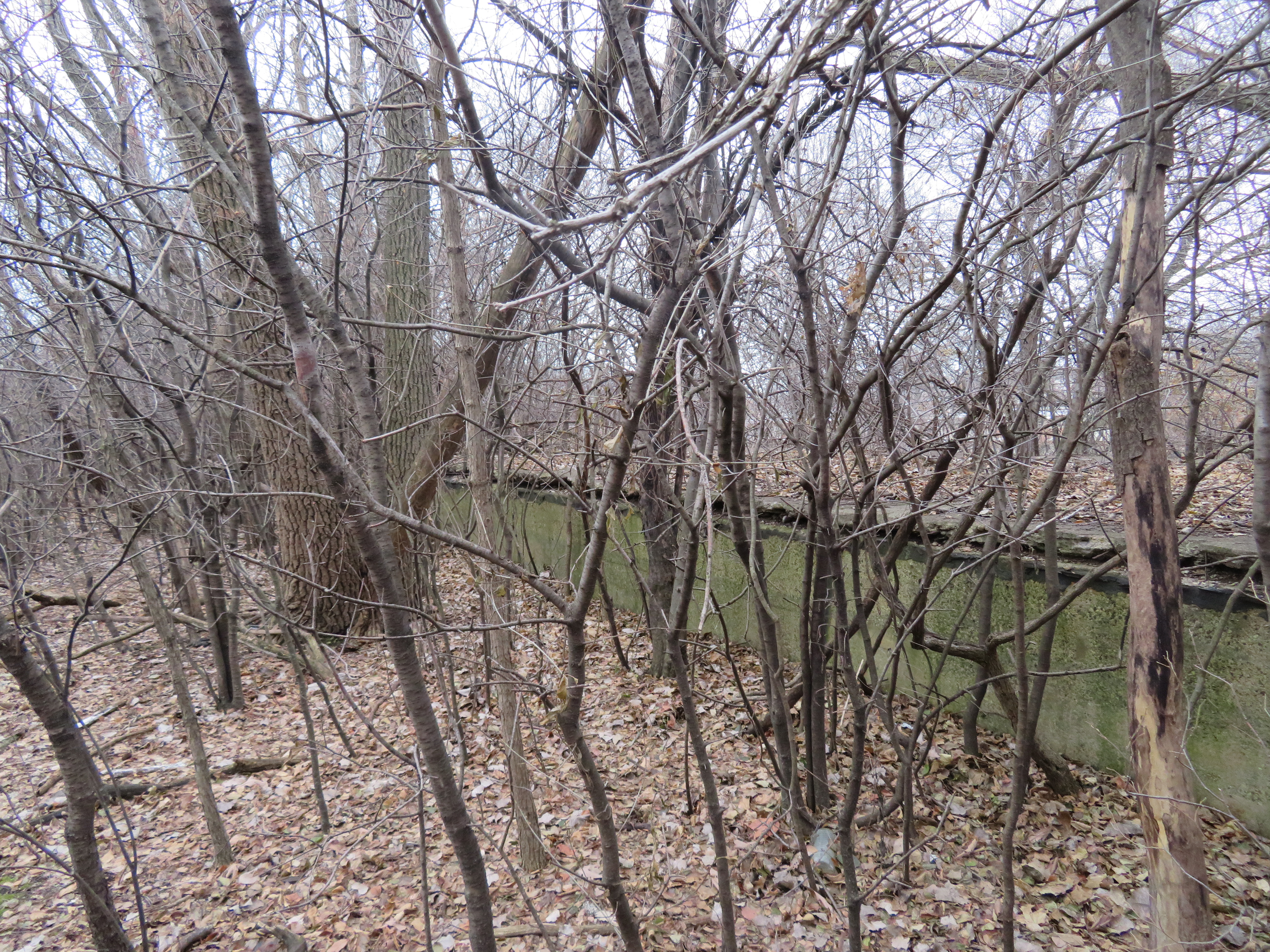 Remains of the platform of the former Vincennes station in December 2018